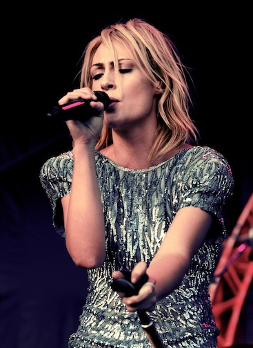 Emily Haines of Metric at the Cisco Ottawa Bluesfest, July 10 2010